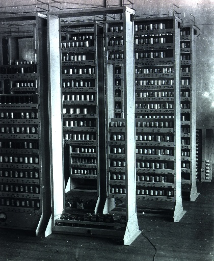 EDSAC I in construction. EDSAC was one of the first computers to implement the stored program (von Neumann) architecture.